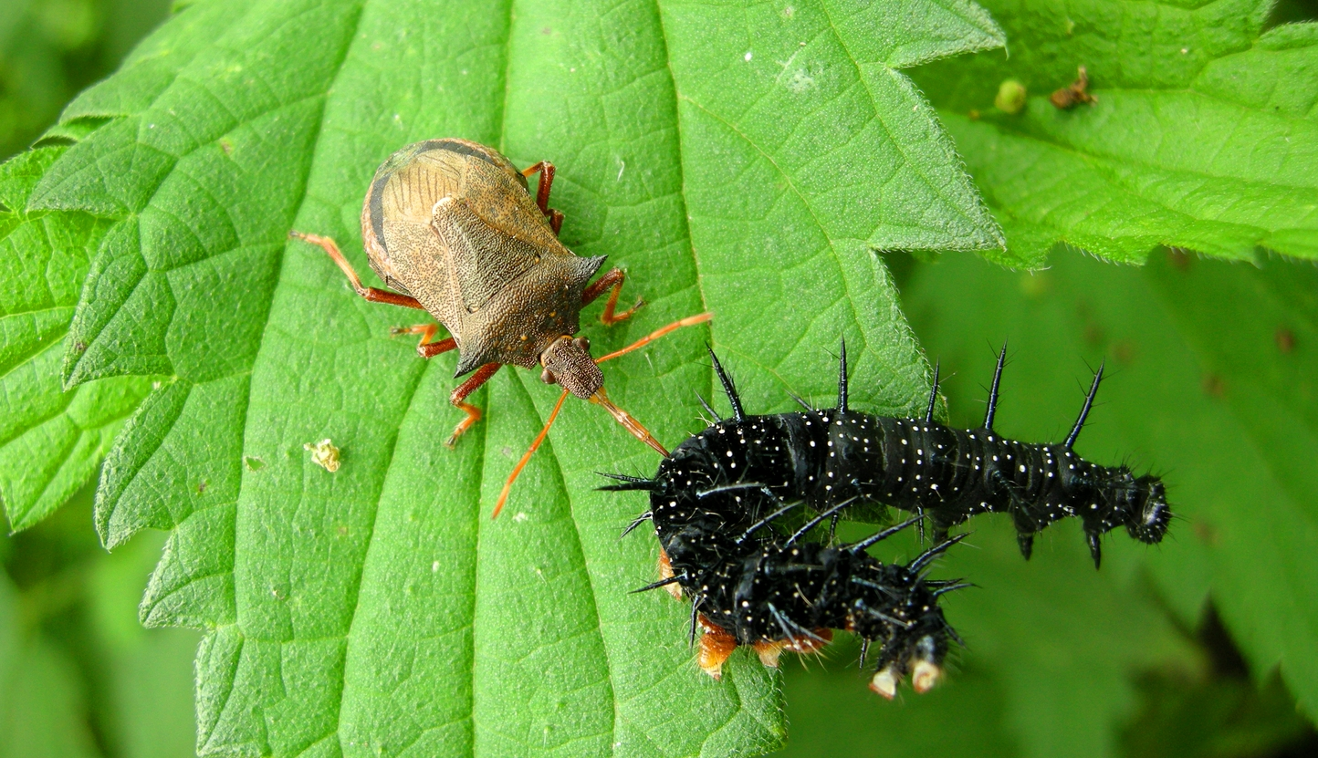 Predatory shieldbug devouring a caterpillar (Inachis io) on a nettle leaf.